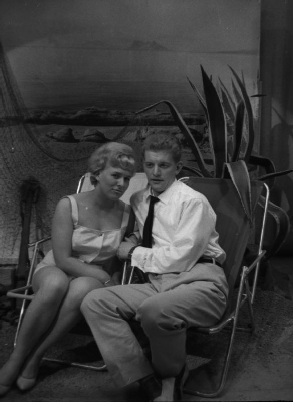 Photograph of the Finnish actors Marjatta Leppänen (1937–) and Matti Heinivaho (1936–) at the set of a Tamvisio television travel show.